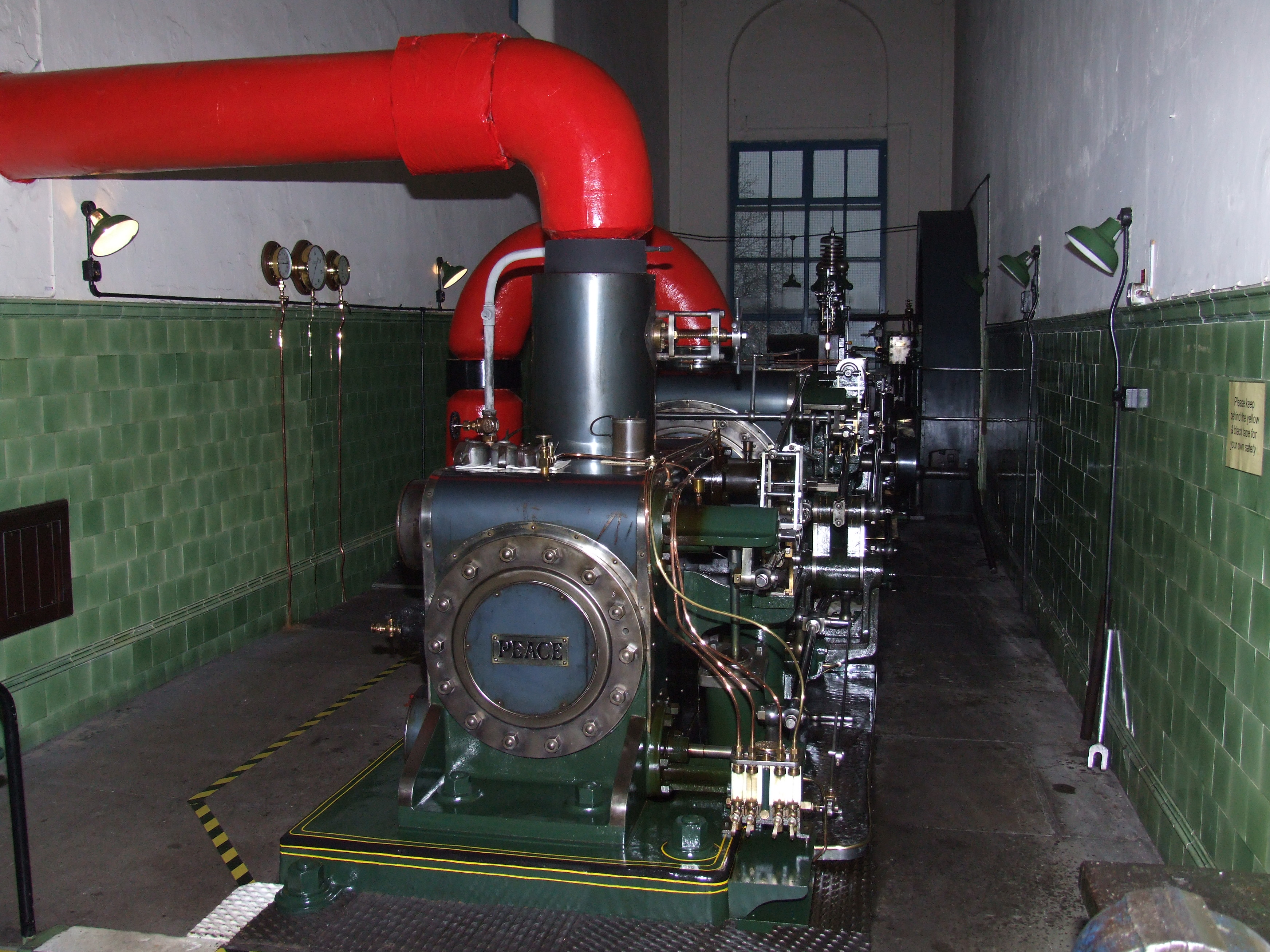 Queen Street Mill in Harle Syke, a suburb to the north-east of Burnley, Lancashire, was built in 1894 for the Queen Street Manufacturing Company. It closed on 12 March 1982 and was mothballed, but was subsequently taken over by Burnley Borough Council and used as a museum. In the 1990s ownership passed to Lancashire Museums. Unique in being the world's only surviving steam-driven weaving shed. The tandem compound horizontal stationary steam engine. The high-pressure cylinder (HP) is 16 inches (41 cm) and the low-pressure (LP) 32 inches (81 cm). It uses Corliss valves. The engine drives a 14 feet (4.3 m) flywheel running at 68 rpm. The 500 horsepower (370 kW) engine was built and installed by William Roberts of Nelson in 1895.